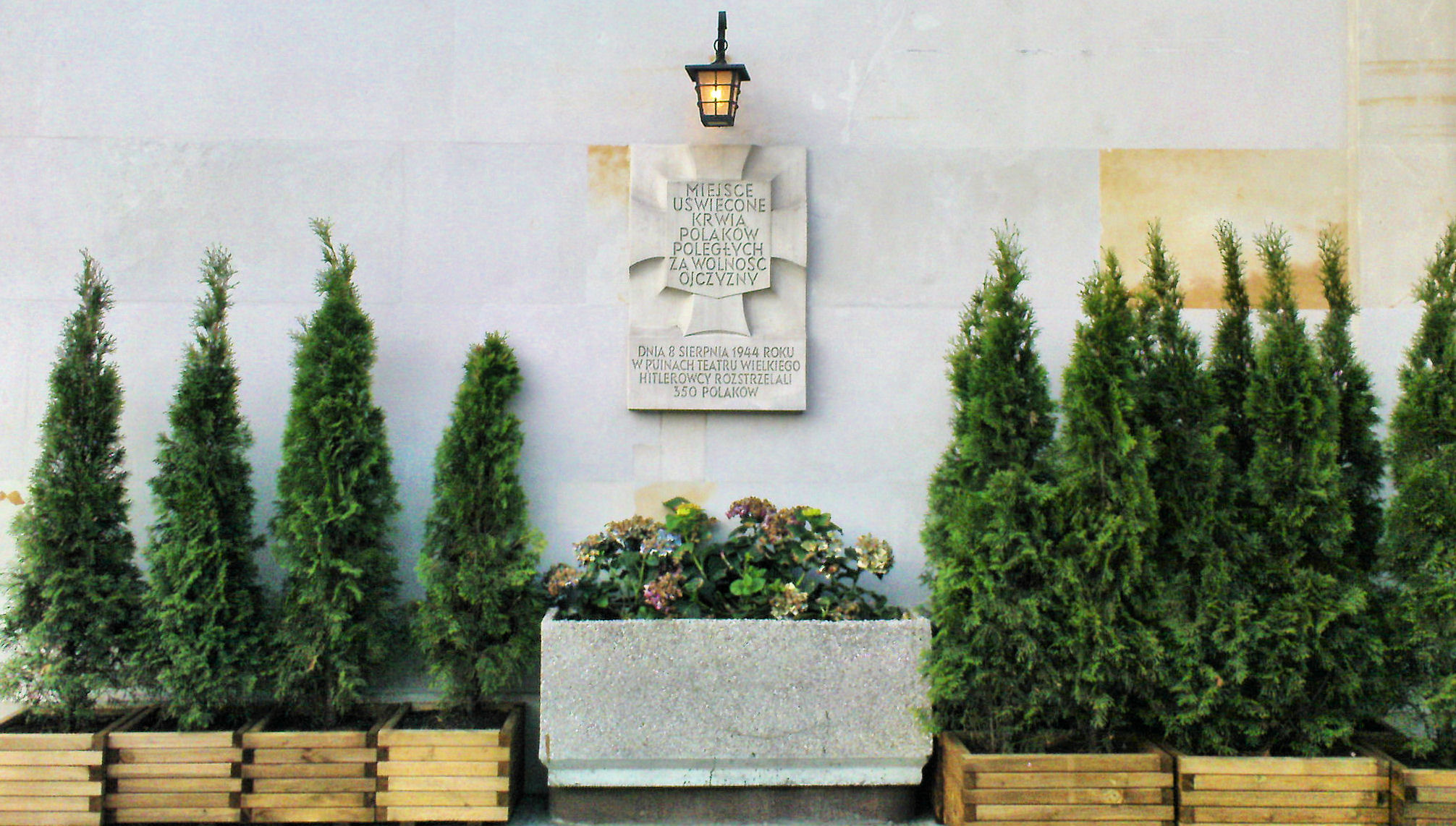 Plaque at the Grand Theatre-National Opera in Warsaw, commemorating almost 350 Polish civilians murdered inside this building by SS troops during the Warsaw Uprising (8-9 August 1944).